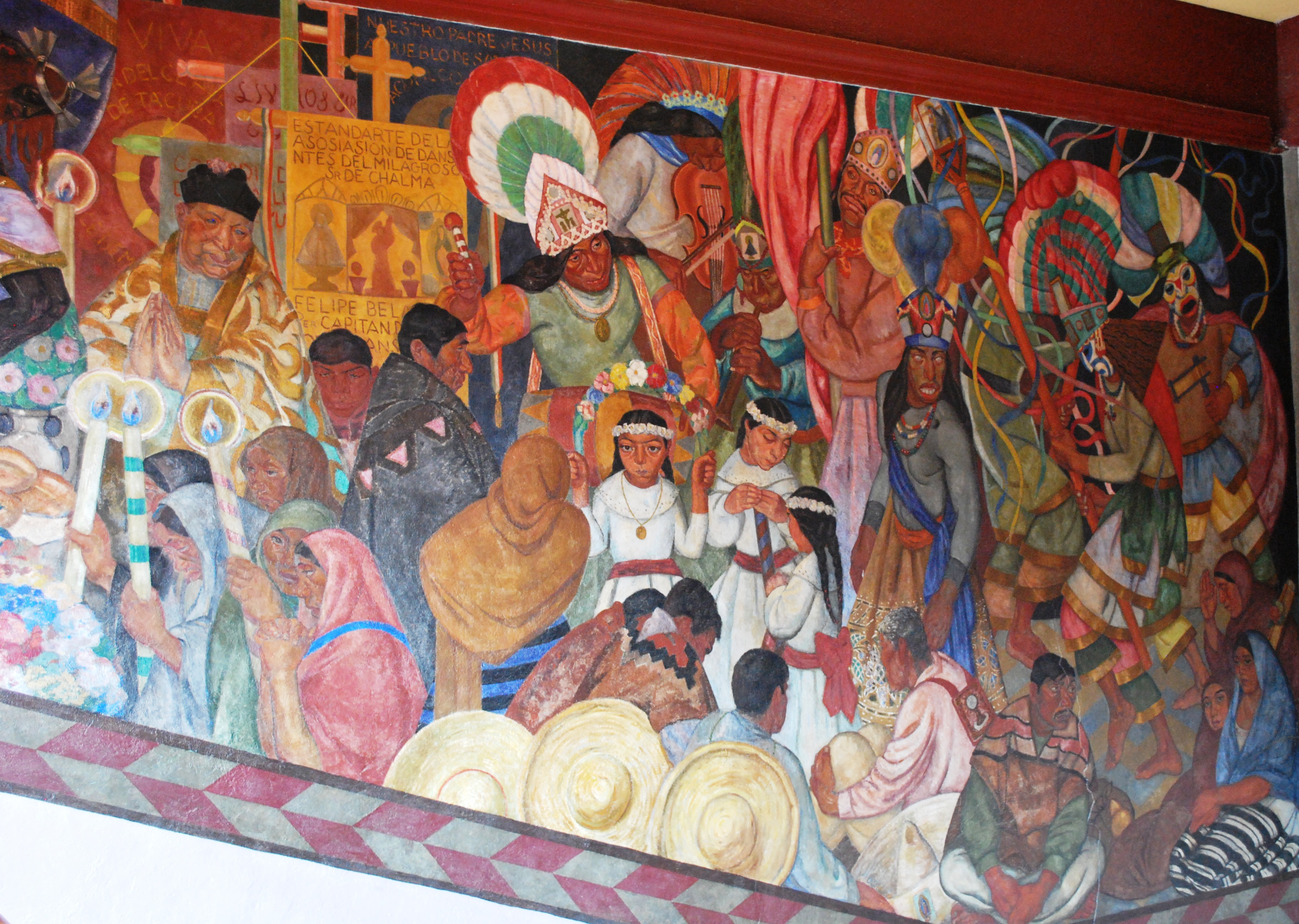 Mural with name of "La fiesta del Señor de Chalma" on one of the walls of the San Ildefonso College, located in the historic center of Mexico City.